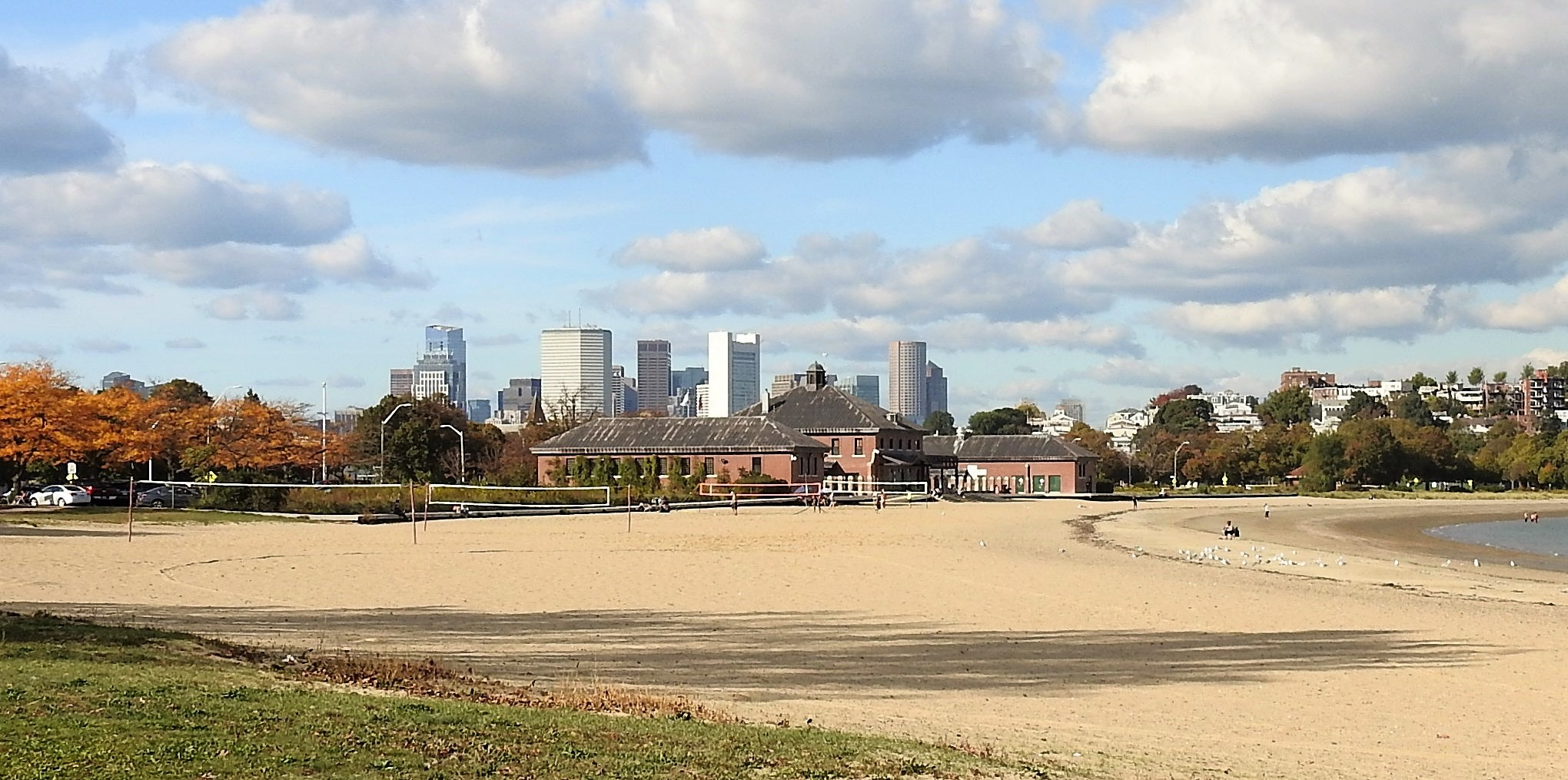 Carson Beach including the Mccormack Bathhouse, with Boston's financial district skyline in the background.